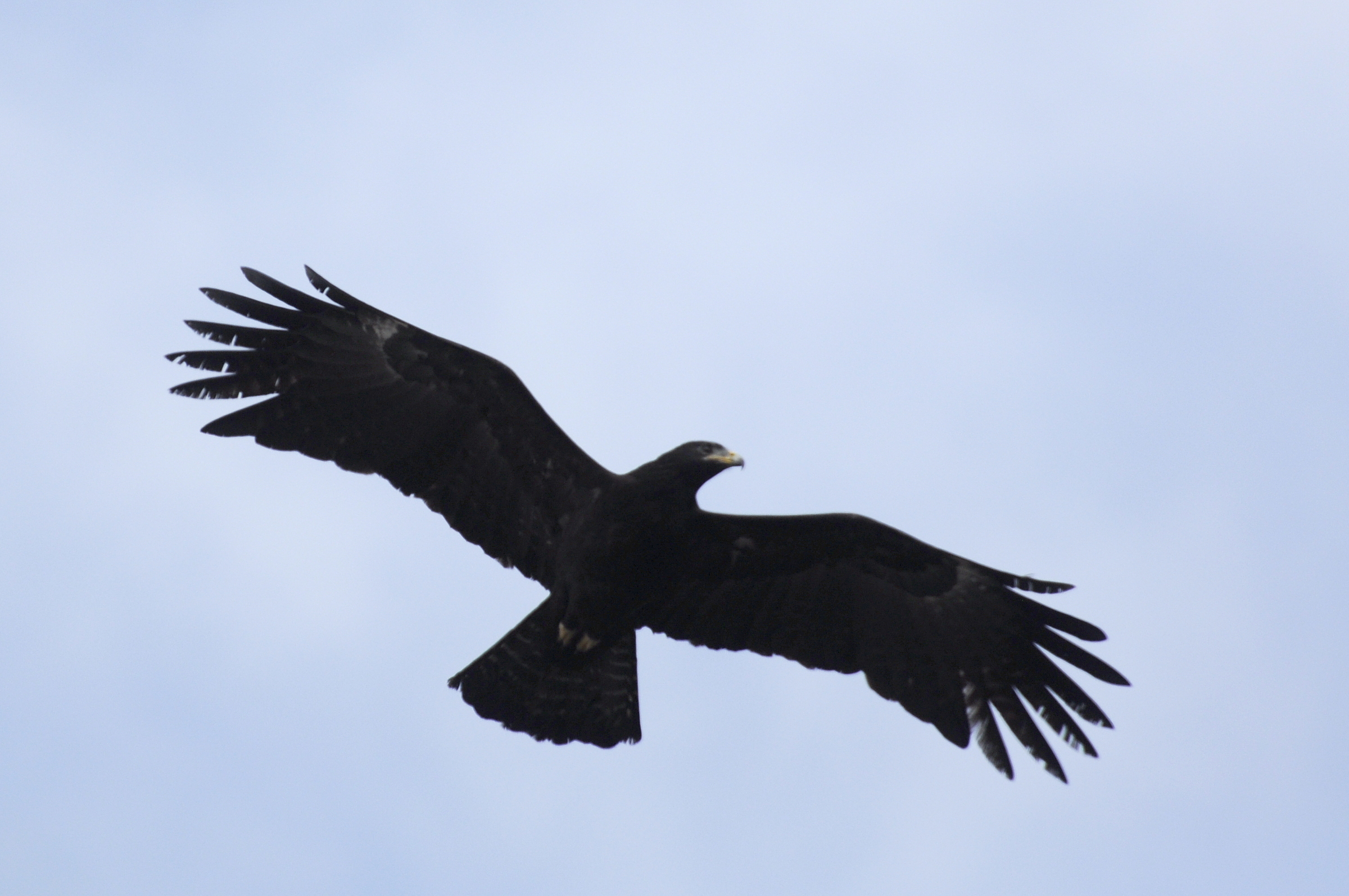 A Black Eagle (Ictinaetus malaiensis) in flight, Anamalai hills, India